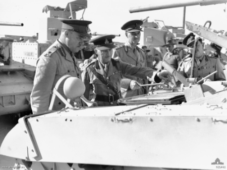 Tel-El-Kebir, Egypt. Major-General J. Northcott with officers of the Australian Army Ordnance Corps inspecting an American Stuart M3 Light Tank.